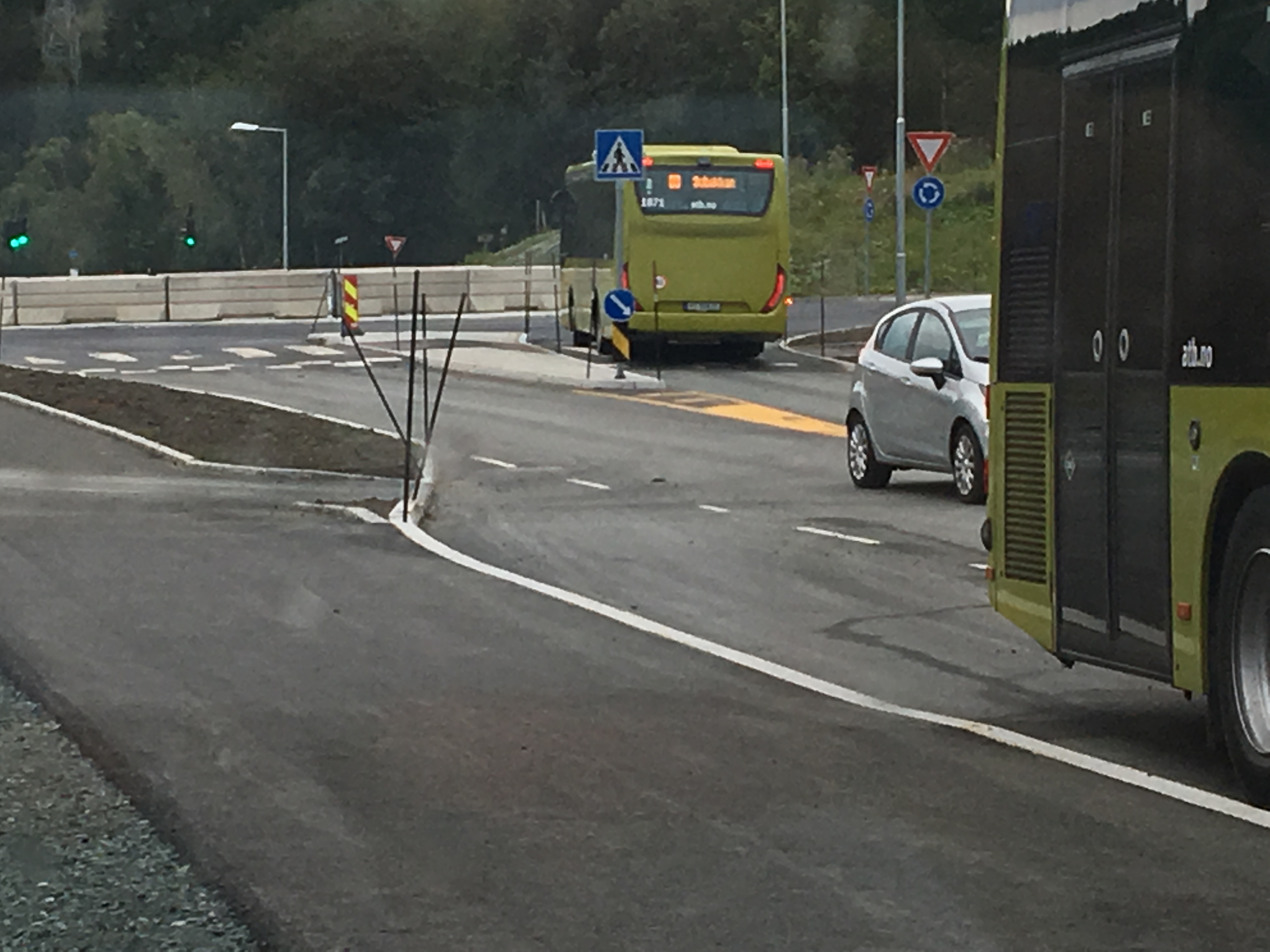 An Iveco Urbanway from AtB at Sæterbakken on Line 80 towards Solbakken.